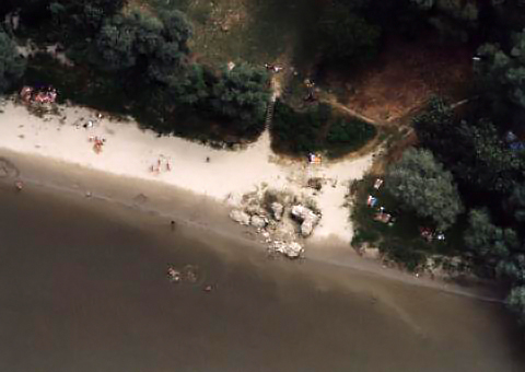 Contraflorientiam - Dunaszekcső - Hungary - Europe